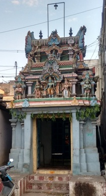 Thanjavur kondirajapalayam ramar temple தஞ்சாவூர் கொண்டிராஜபாளையம் ராமர் கோயில்